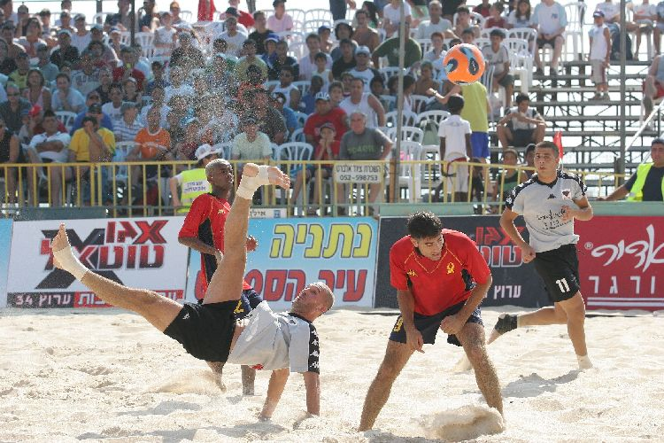 Beach soccer, Israel